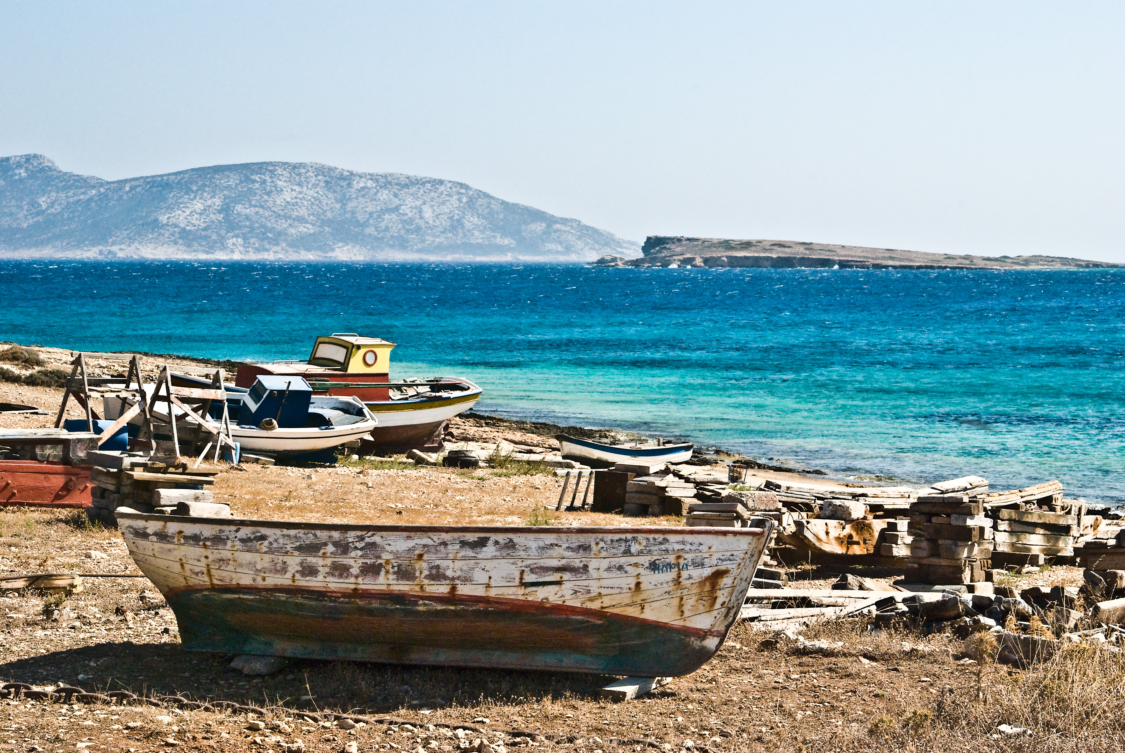 Glaronisi island, seen from Pano Koufonisi, Keros in the background, Small Cyclades, Greece